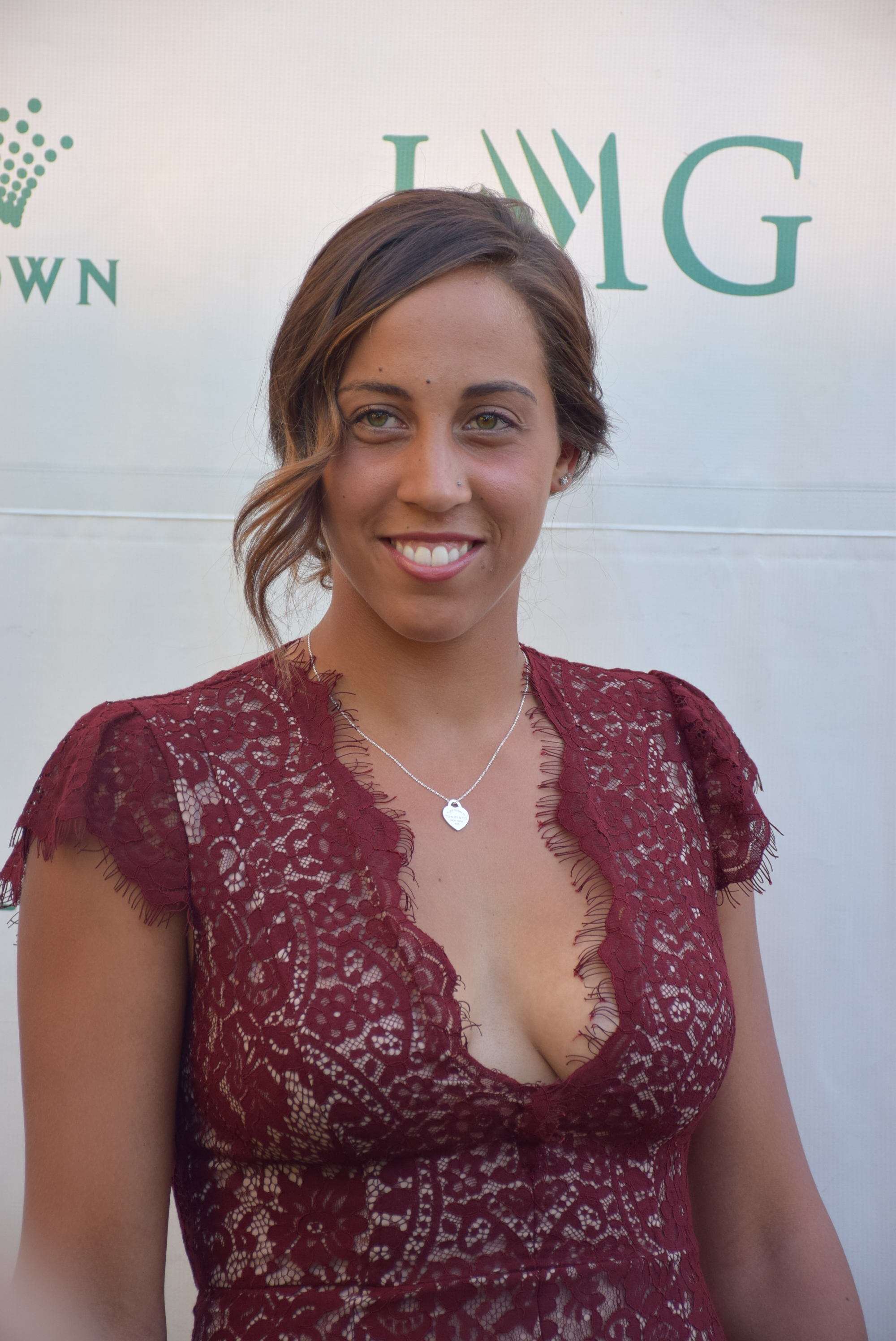 Madison Keys (US)